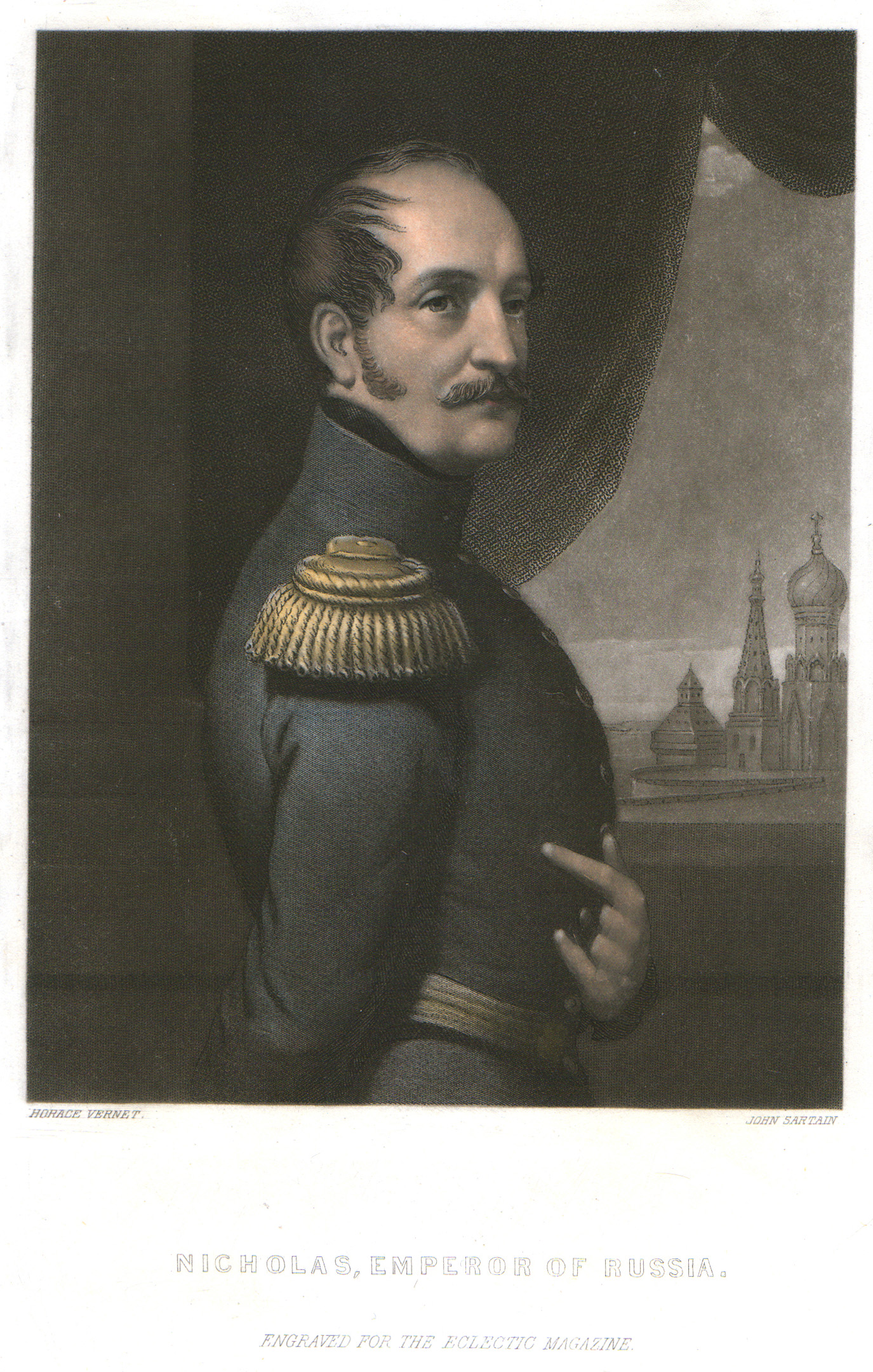 Russian emperor Nicolas I. Engraved portrait. 1850s